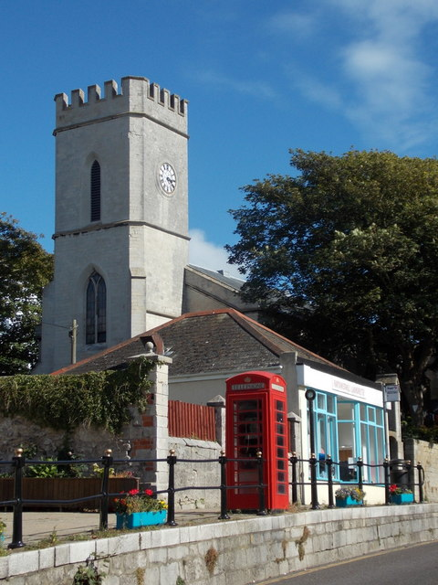 Portland phone box at Fortuneswell, and St John's Church